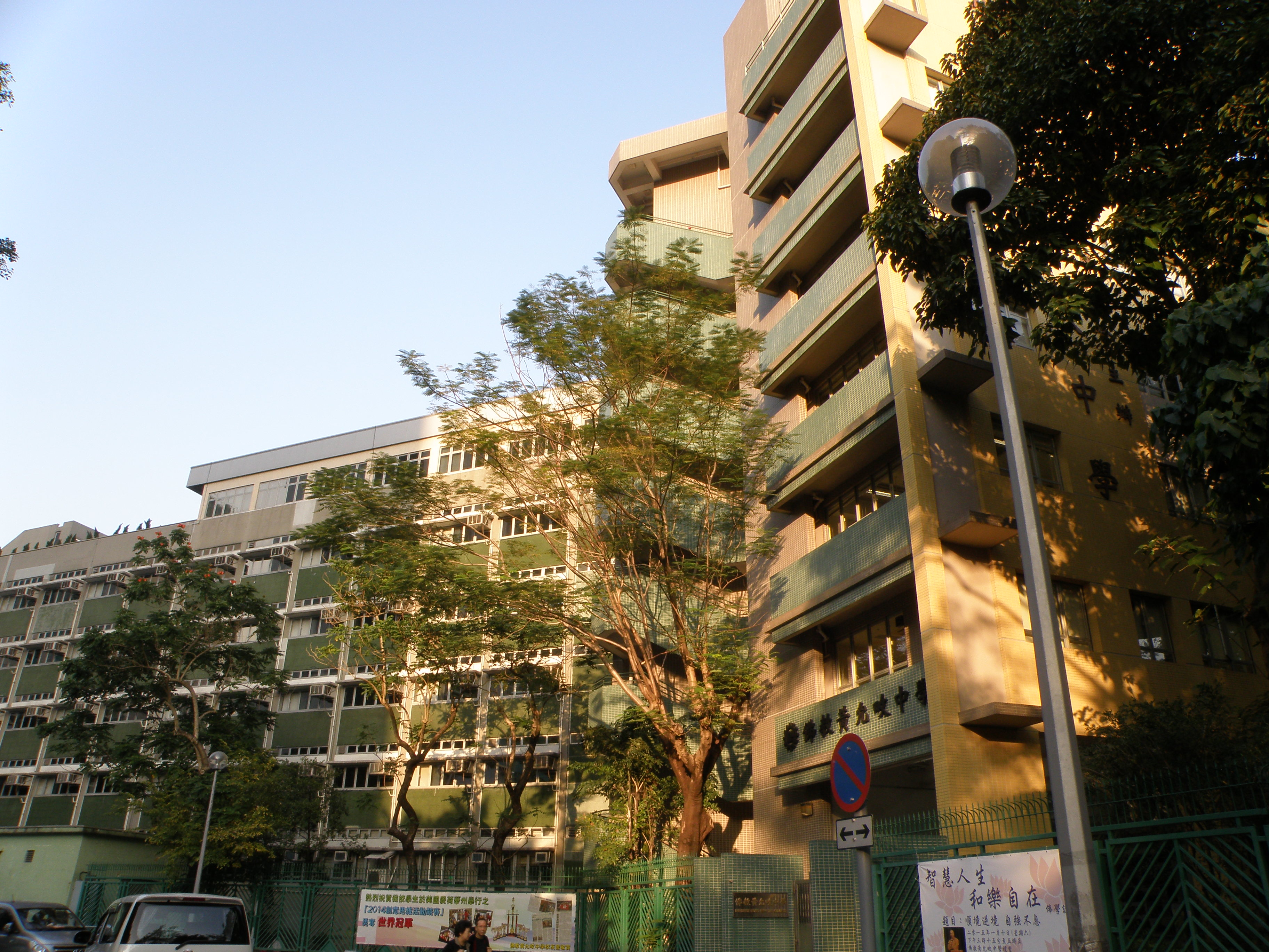 Buddhist Wong Wan Tin College in Tai Wai, Hong Kong.